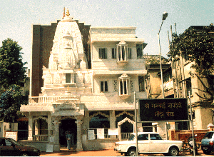 Facade of Temple from across the road, Matunga, Mumbai